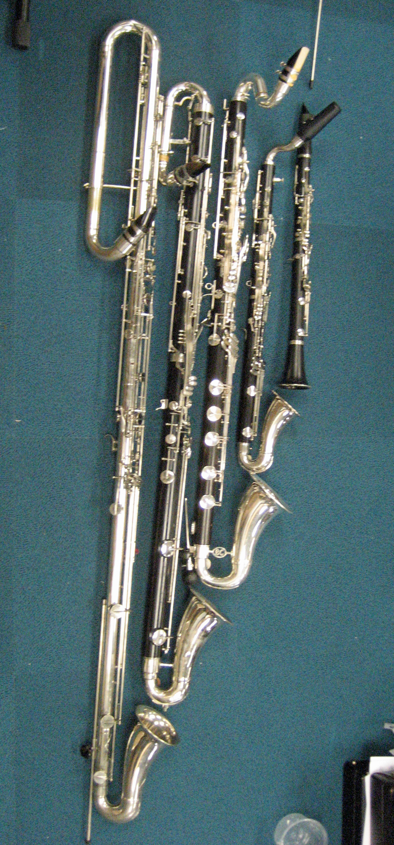 From left: Leblanc Bb ContraBass Clarinet, Leblanc ContraAlto Bass Clarinet, Bb Bass Clarinet, Alto Clarinet, Bb Clarinet